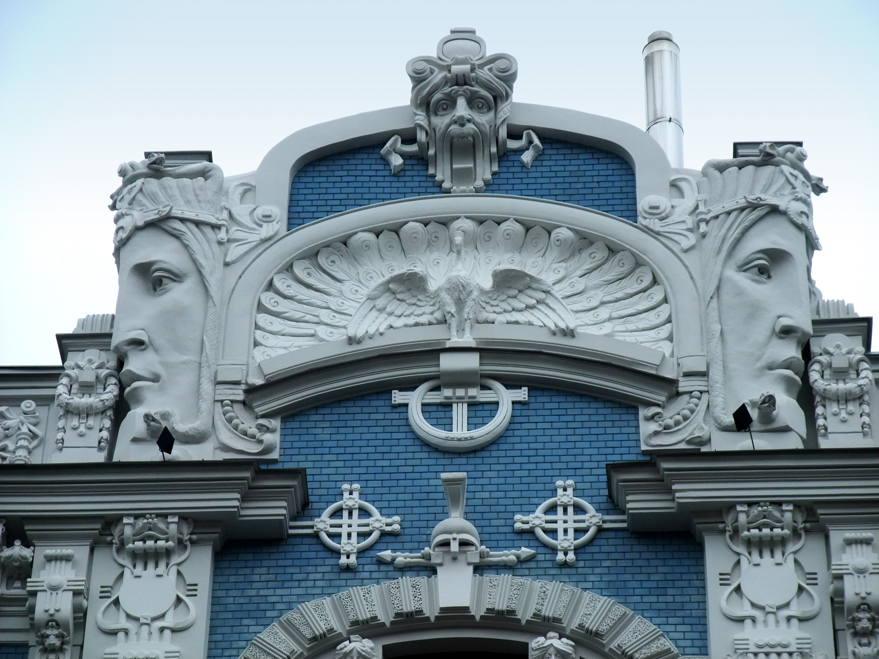 Art Nouveau in Elizabetes Street in Riga, Latvia